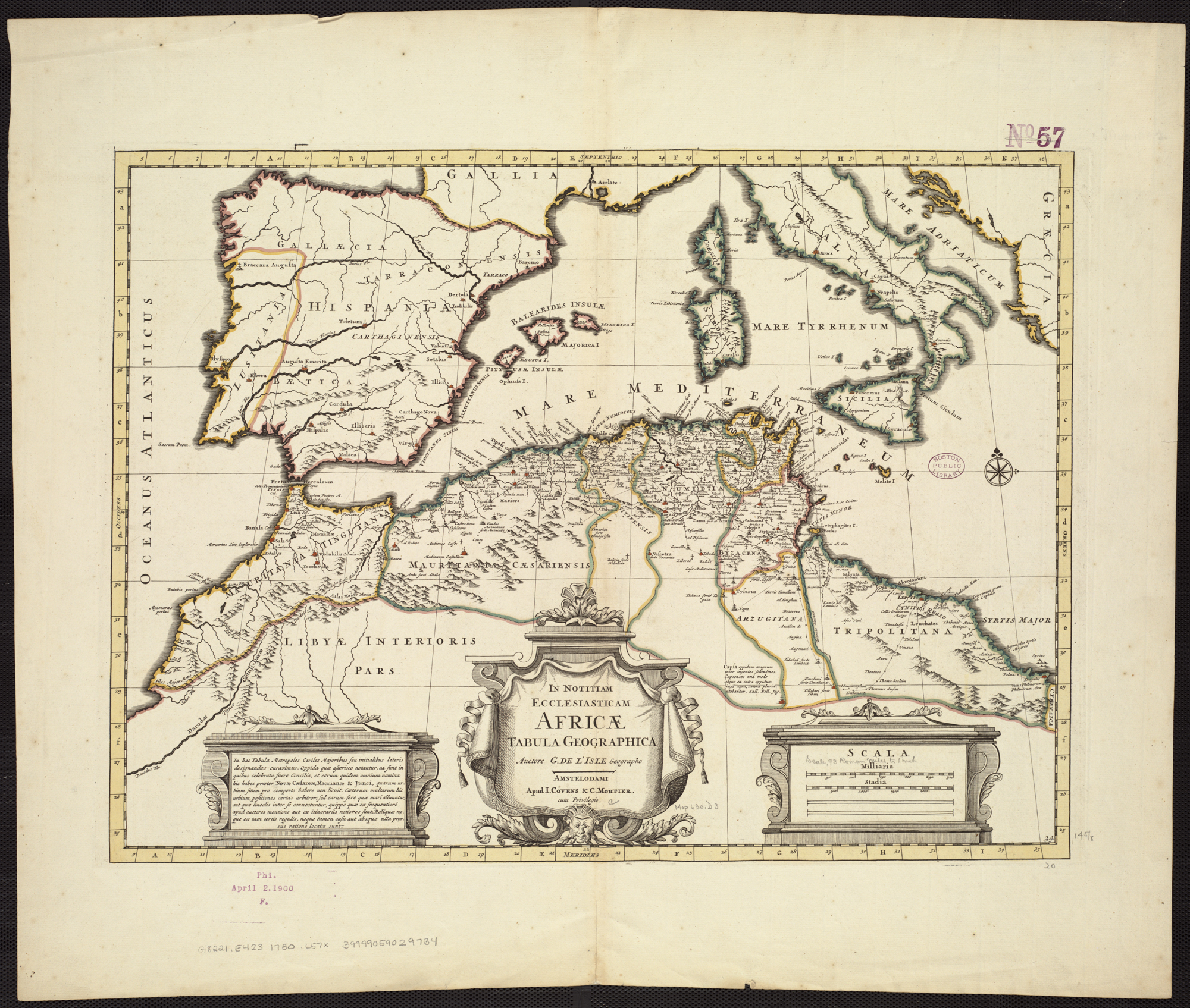 Zoom into this map at . Author: L'Isle, Guillaume de Publisher: Cóvens et Mortier Date: 1730 Location: Africa, North Dimension: 38x51cm Scale: [ca. 1:5,700,000] Call Number: G8221.E423 1730 .L57x